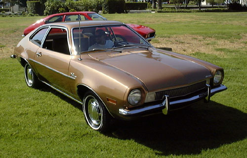 Ford Pinto. Foreground car is a restored example; background is a hot-rodded version with popup headlights.